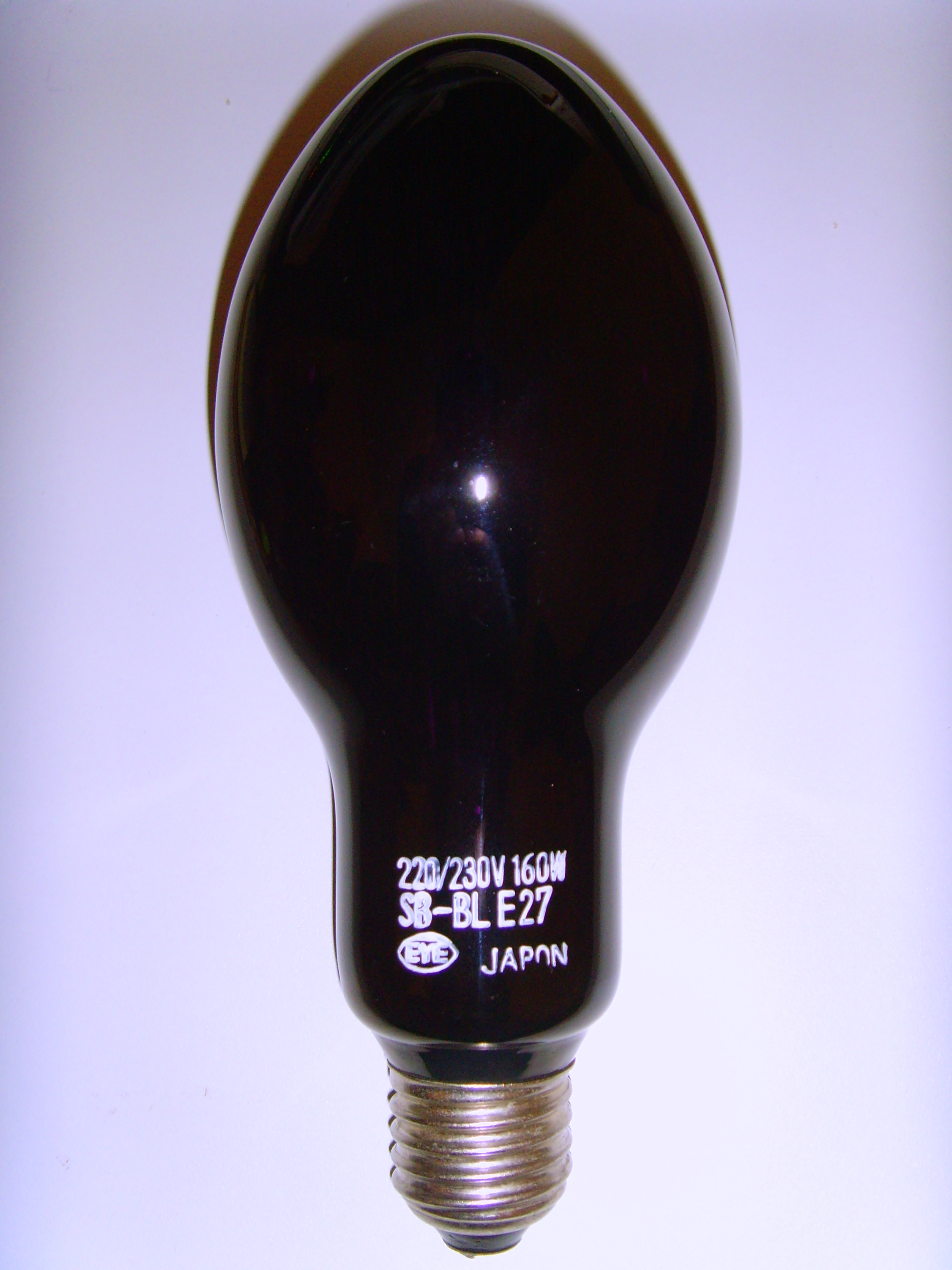 160W mercury-vapor "black light" ultraviolet bulb. It creates ultraviolet light with an electric arc through mercury vapor in a small quartz tube inside. The outer bulb has a dark blue-purple filtering material (Wood's glass is one type) which blocks most of the visible light, passing only the ultraviolet light. It emits long-wave (UVA) ultraviolet radiation, from the 253.7 nanometer mercury spectral line. These lamps are used mostly for lighting effects in theaters and stages.